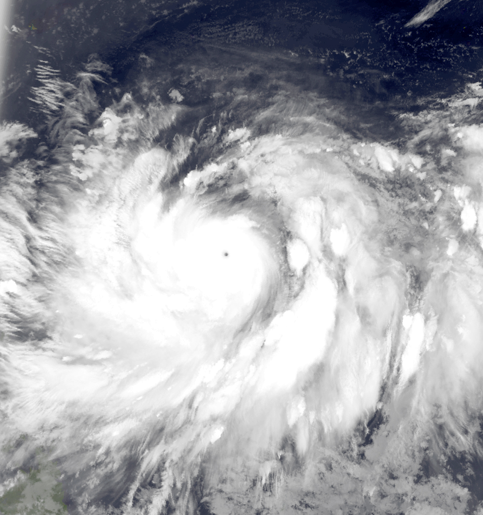 The Operational Linescan System (OLS) Satellite captured this Infrared Satellite Image of Muifa at peak intensity with an unofficial central pressure of 918hpa as sated by the JTWC late on July 30 2011 over the the Philippine Sea.